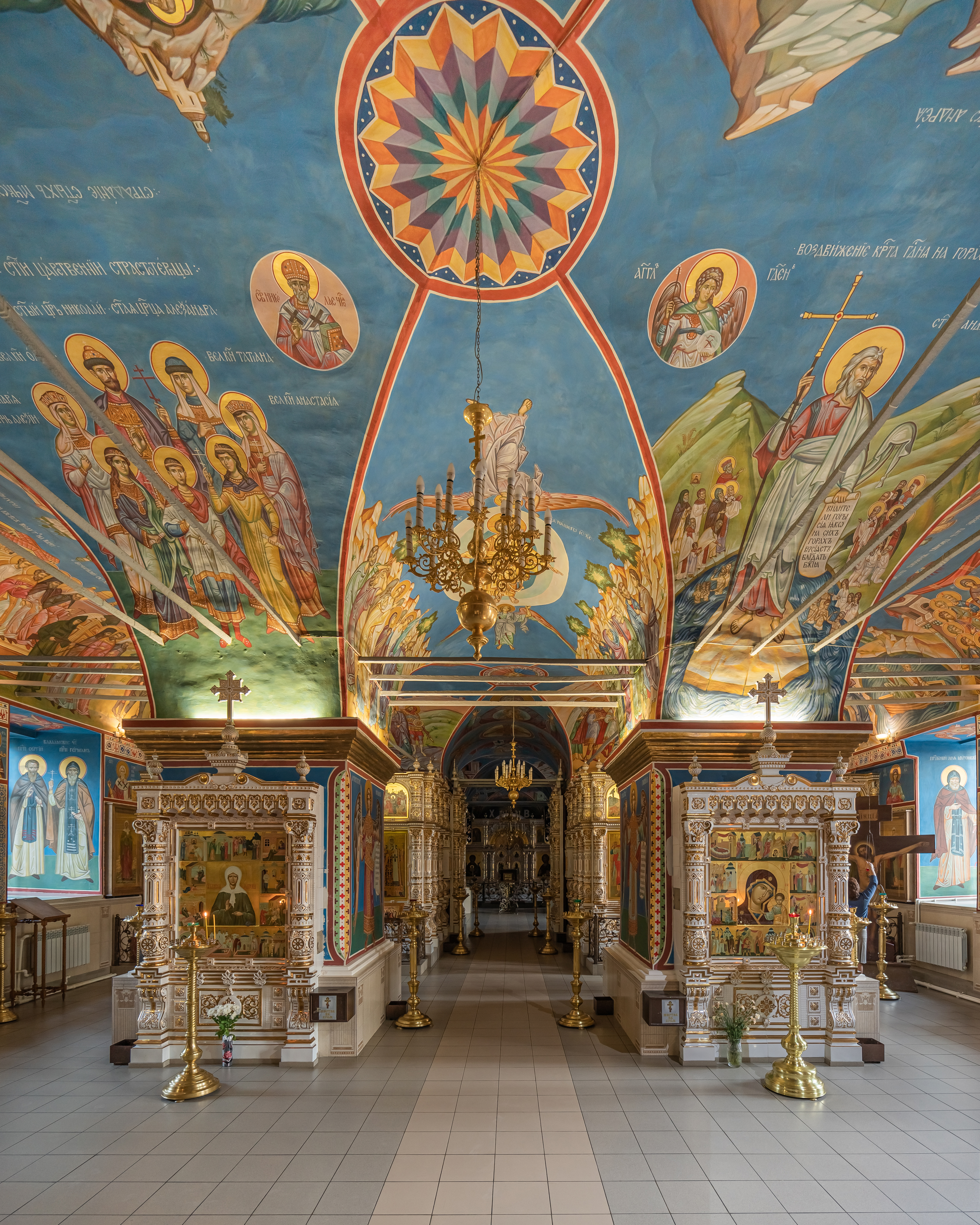 Interior of St. Nicholas Zaretsky Church in Tula, Russia